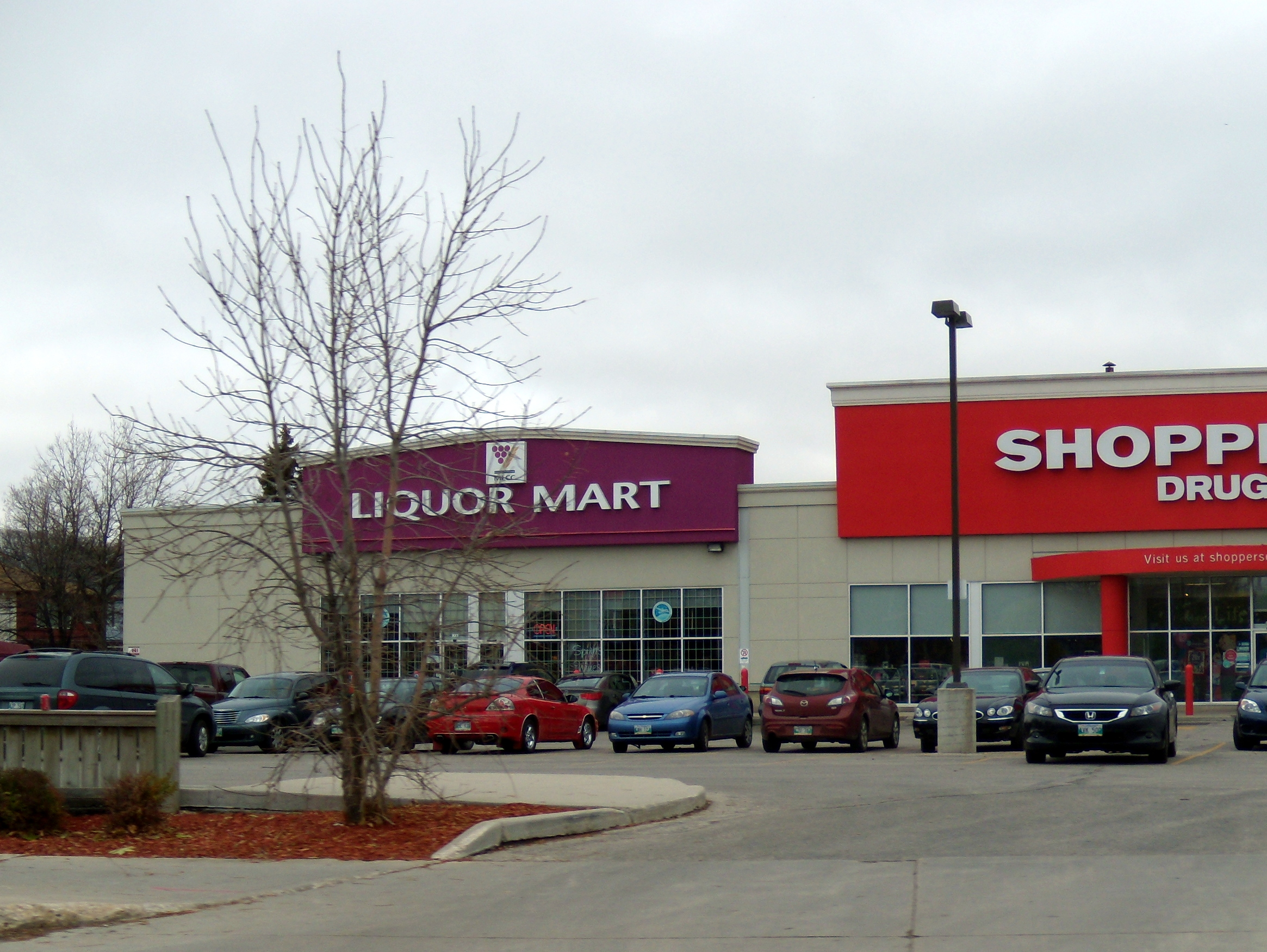 Manitoba Liquor Control Commission's Liquor Mart at 923 Portage Ave, in Winnipeg, Manitoba